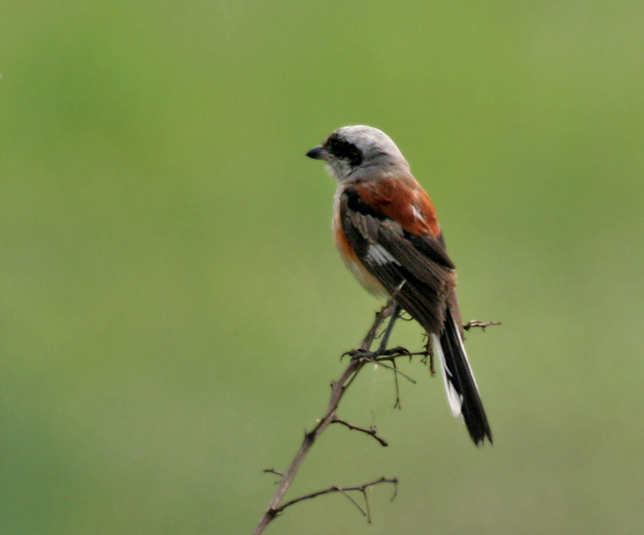 Bay-backed Shrike Lanius vittatus in Kolkata, West Bengal, India.